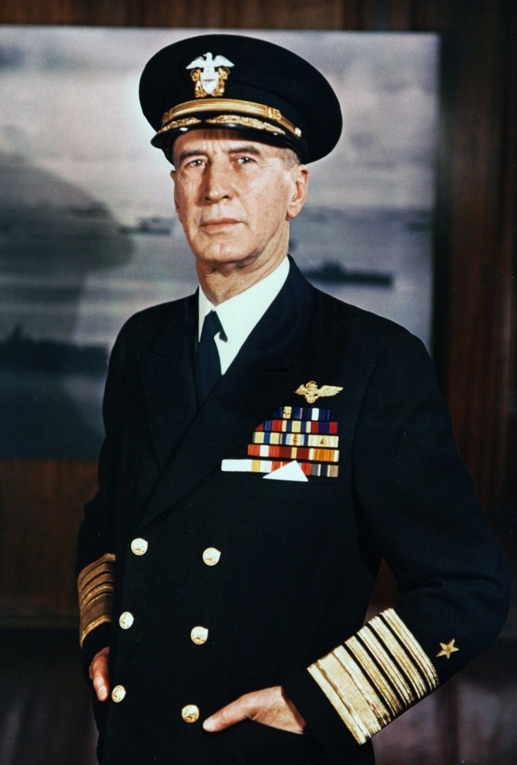 Fleet Admiral Ernest J. King, USN 9th Chief of Naval Operations.